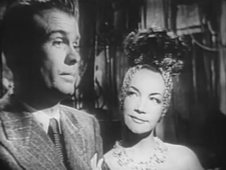 Stephen Dunne and Carmen Miranda in the 1946 film Doll Face